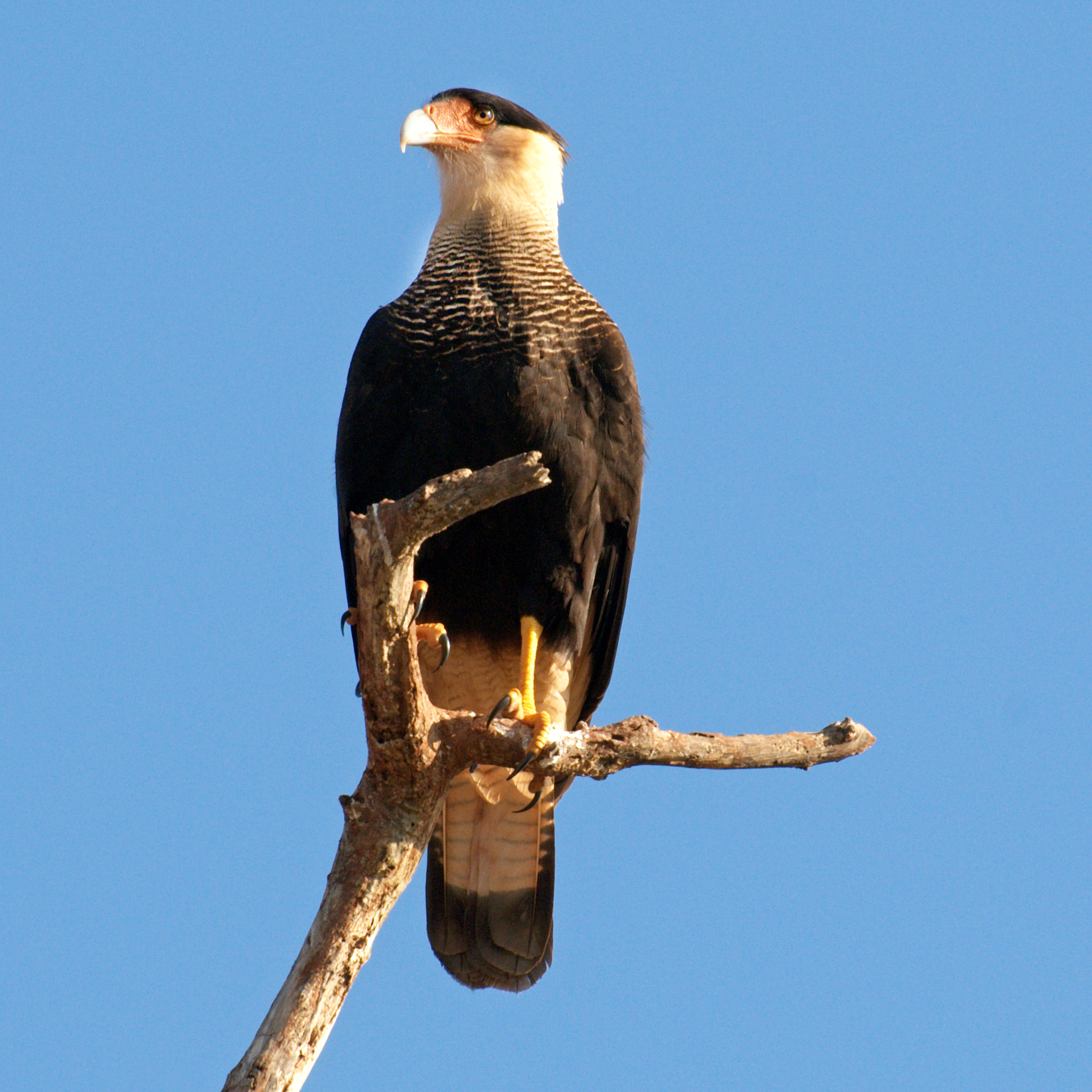 A Southern Caracara in Fazenda Campo de Ouro, Piraju, Brasil.